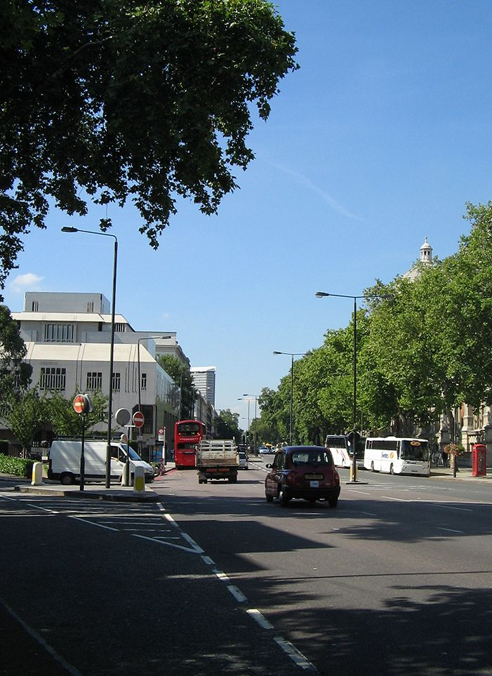 The eastern end of Cromwell Road, in South Kensington, London.